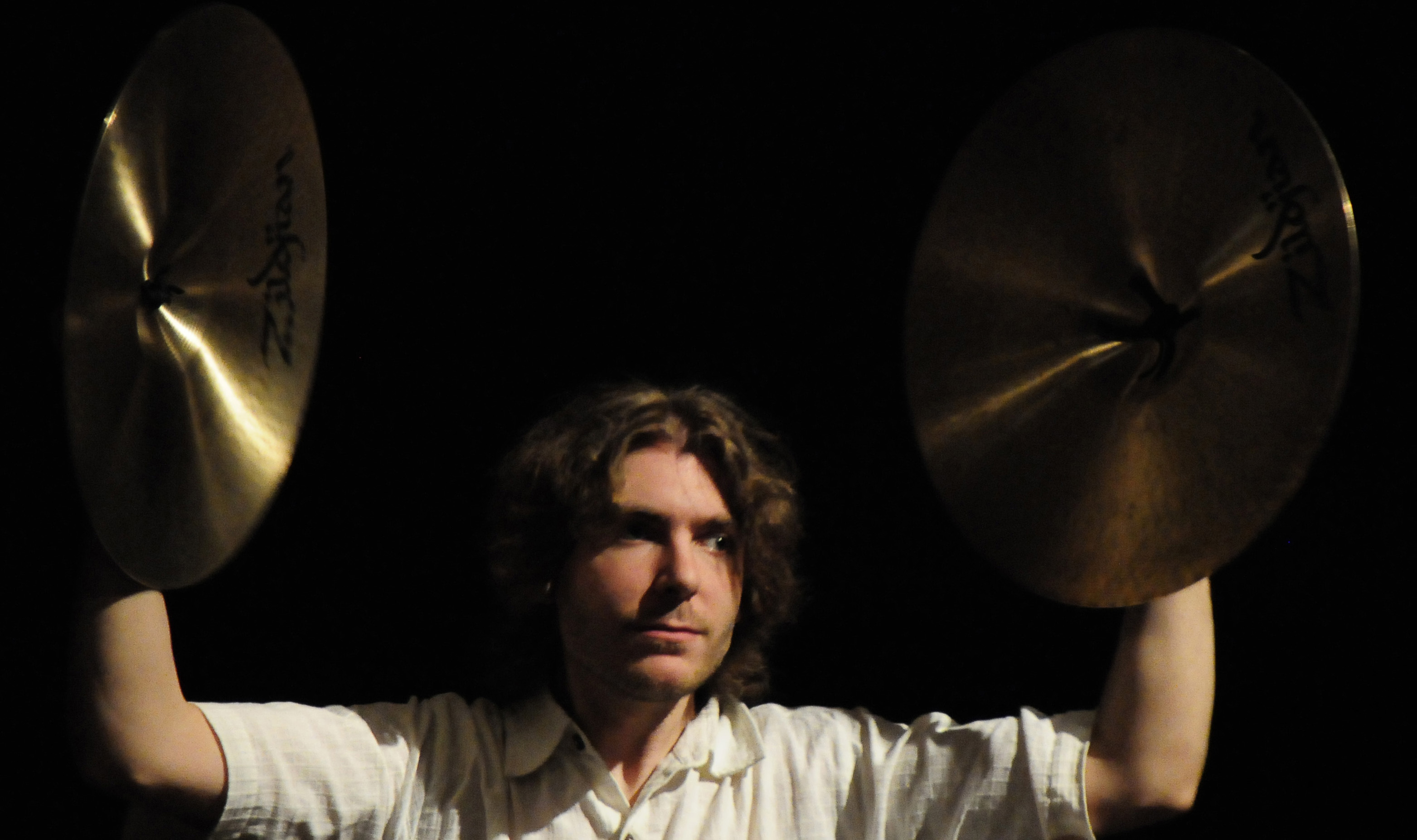 Tim Koehler of the Eau Claire Municipal Band